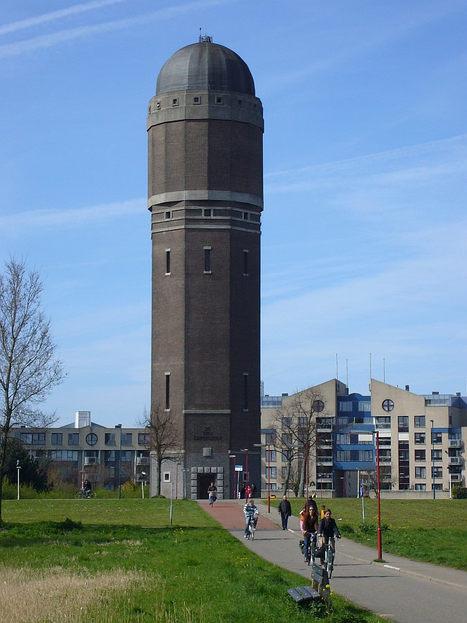 Watertower of Zoetermeer, the Netherlands